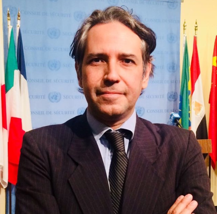 Felipe Machado at UN in 2017 (Closeup)